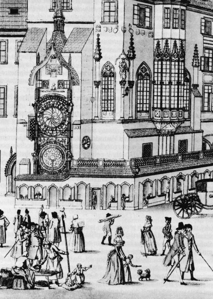 Prague - late 18th century